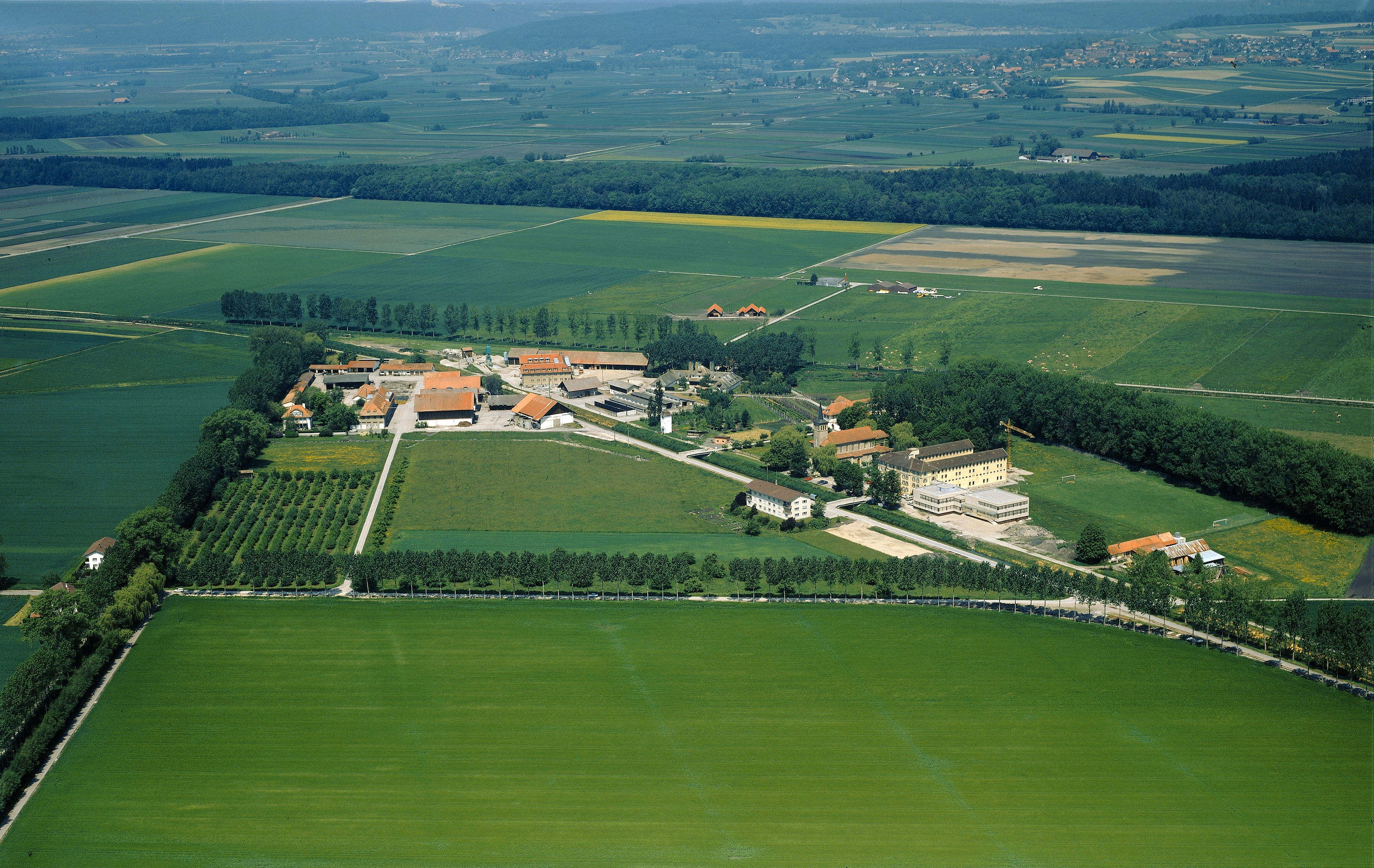 Aerial photograph of Bellechasse FR, 1987